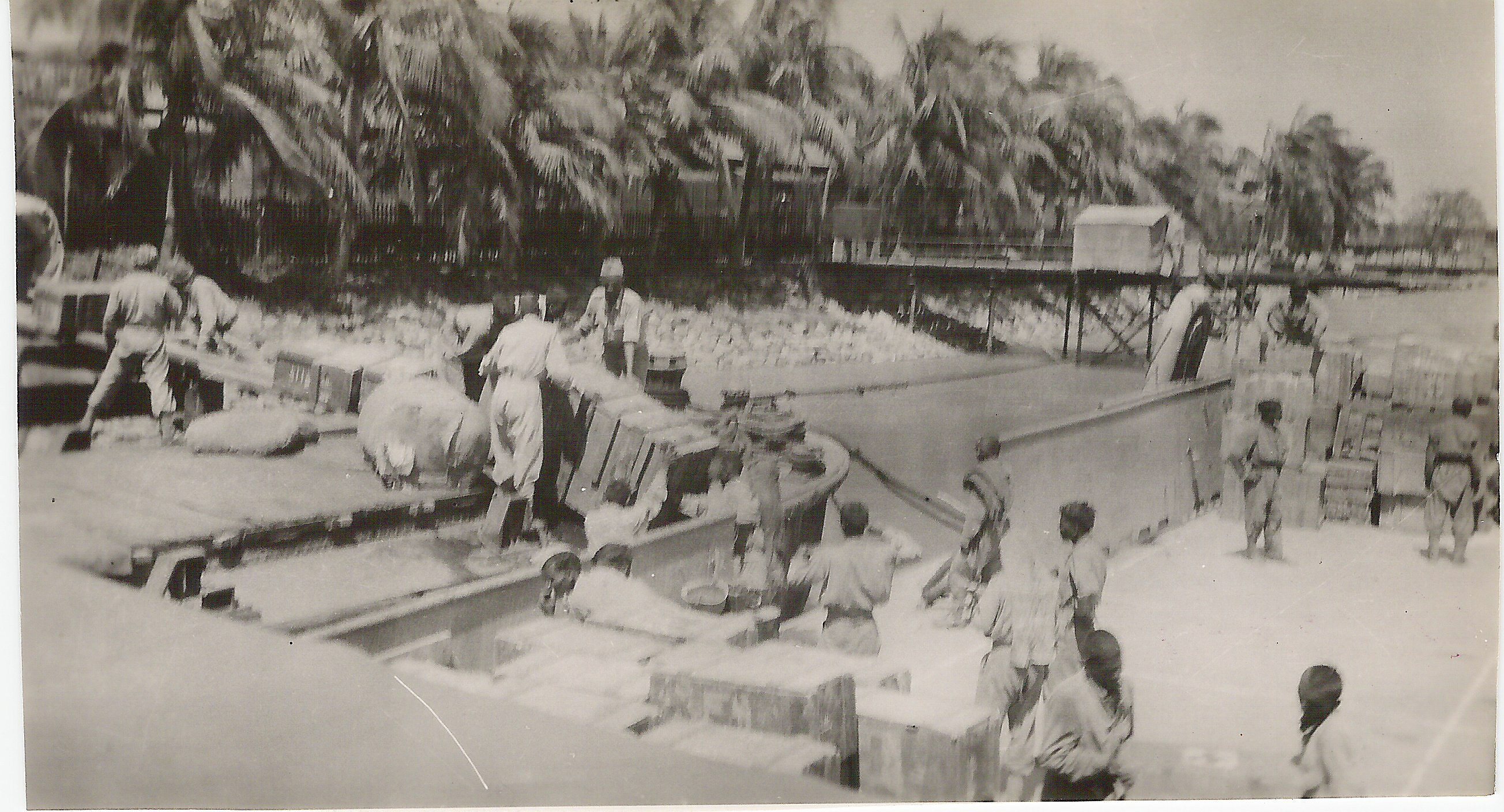 US Navy in Chittagong WWII 1944